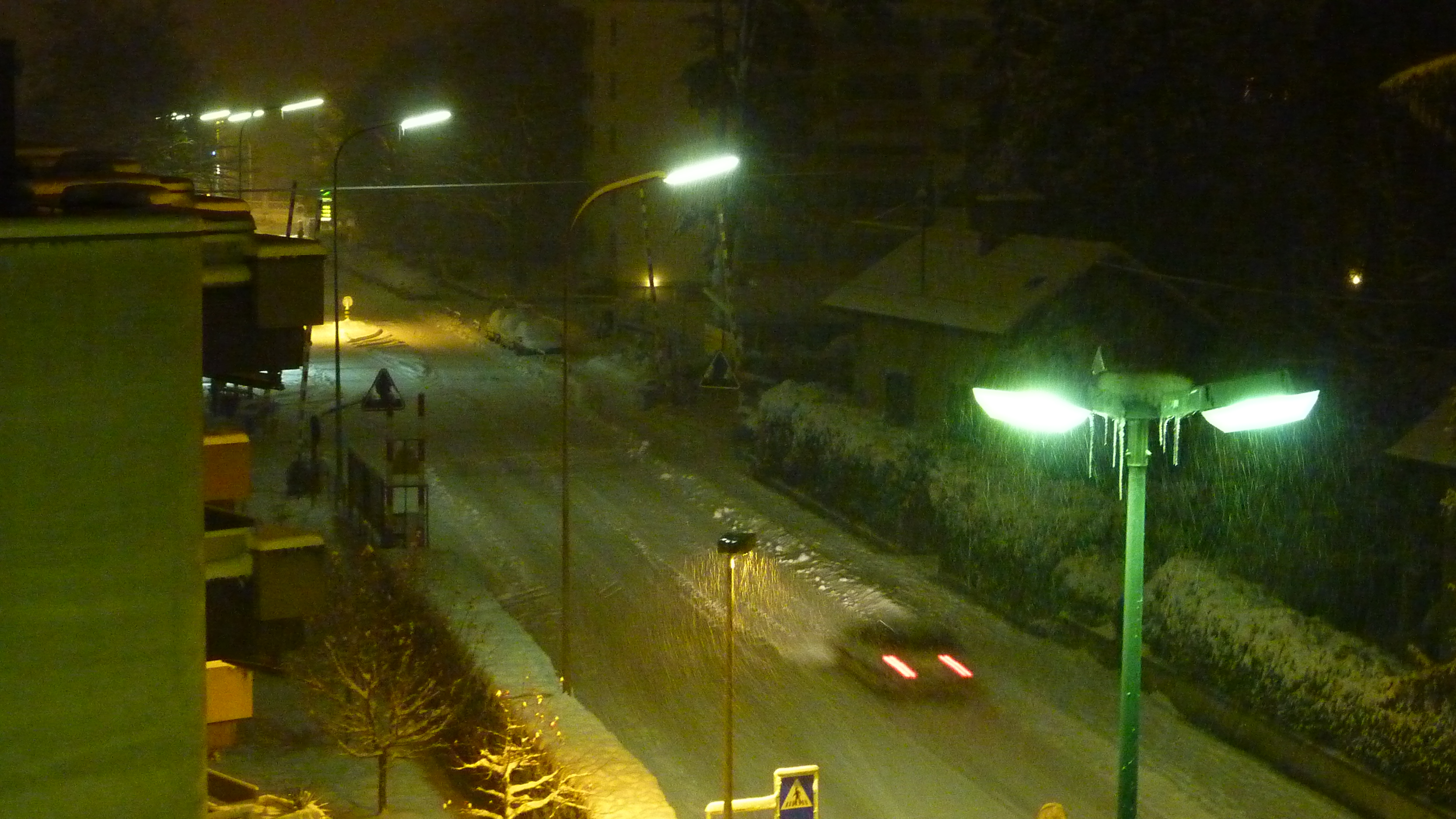 Streets in Chêne-Bourg near Geneva, Switzerland